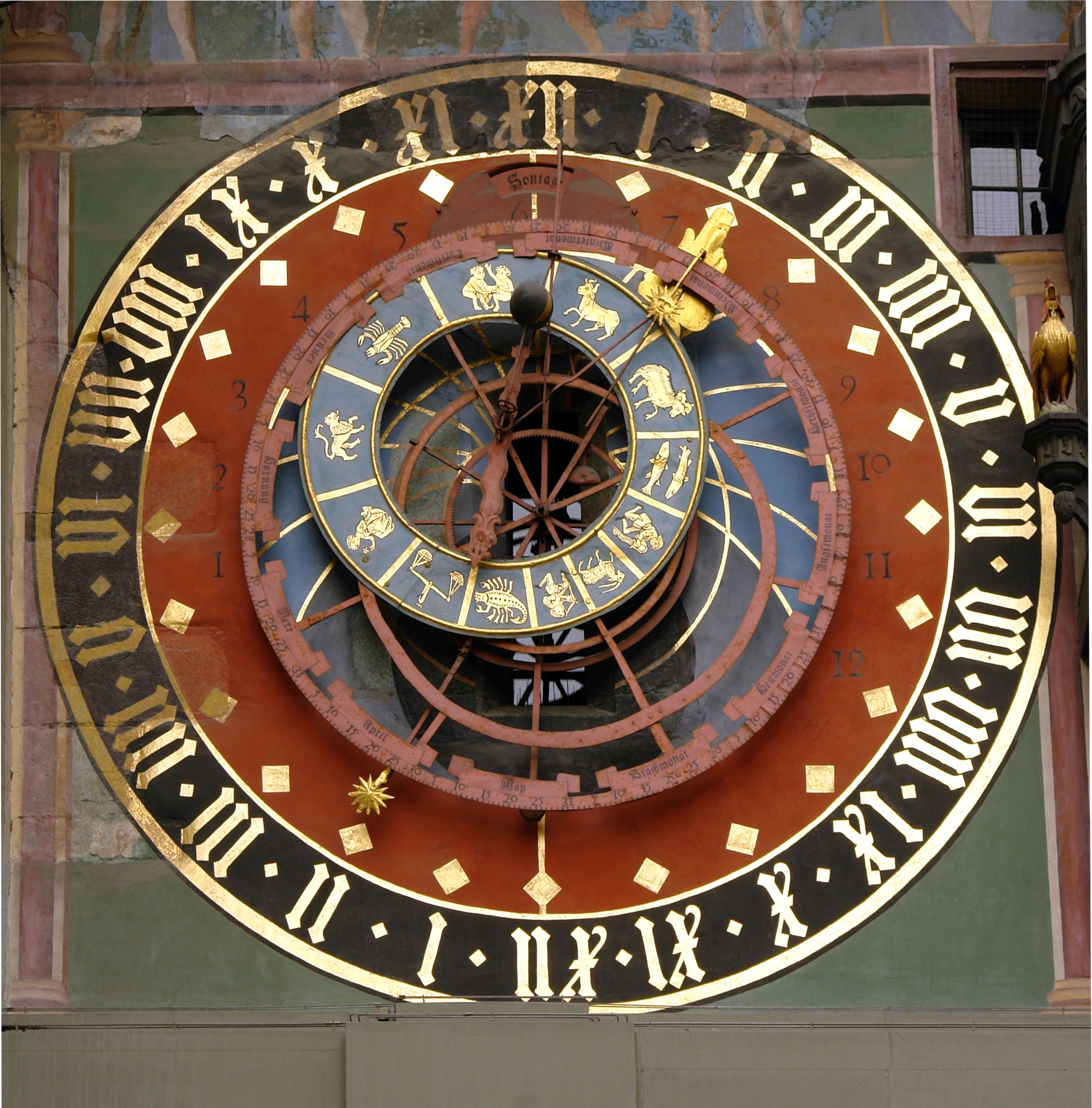 Astronomical clock, Berne, Switzerland.